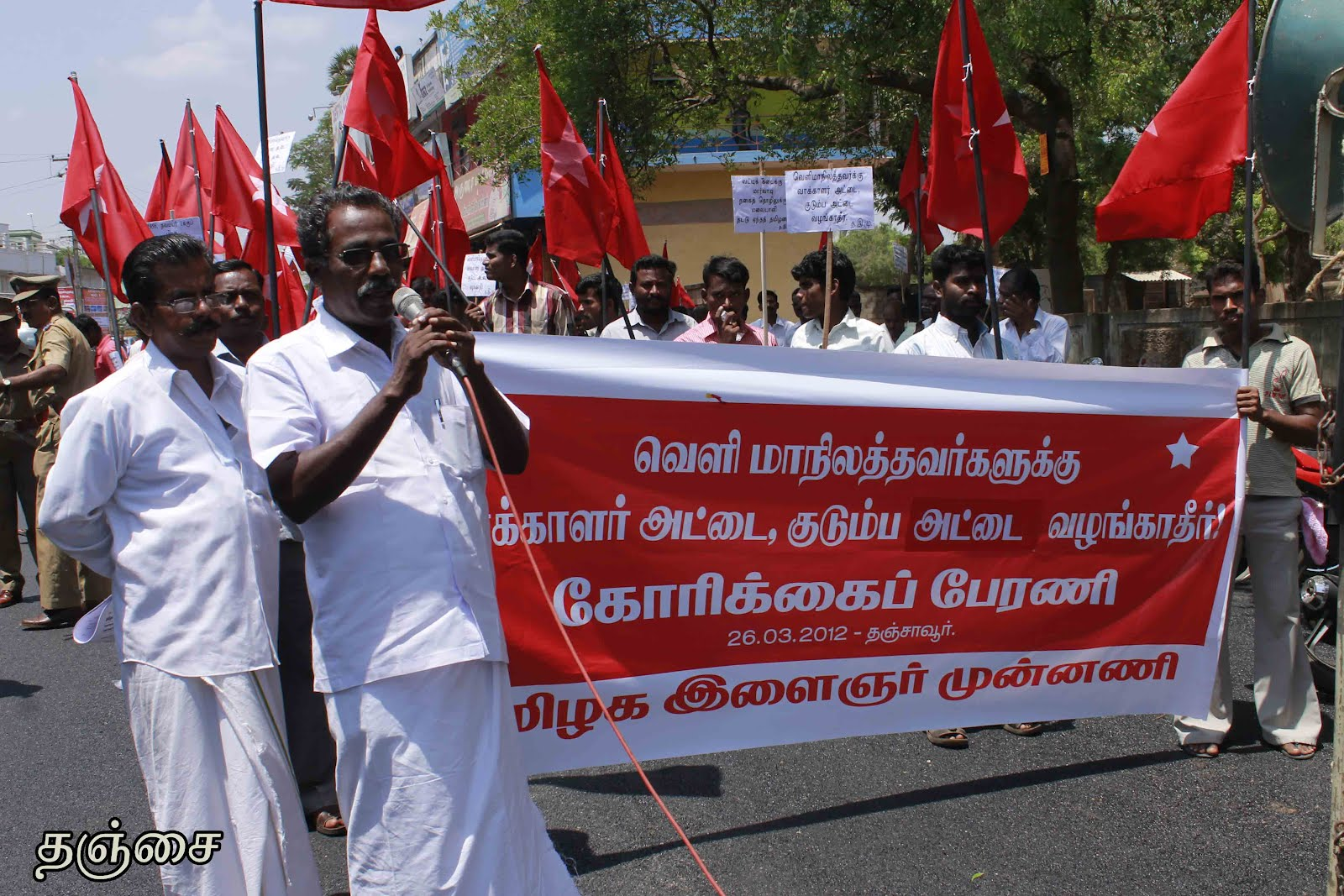 வெளிமாநிலத்தவர்களுக்கு வாக்காளர் அட்டை, குடும்ப அட்டை வழங்கக் கூடாது என வலியுறுத்தி தமிழகமெங்கும் 26.03.2012 அன்று தமிழக இளைஞர் முன்னணி மற்றும் தமிழ்த் தேசப் பொதுவுடைமைக் கட்சி சார்பில் ஆர்ப்பாட்டங்கள் நடைபெற்றன